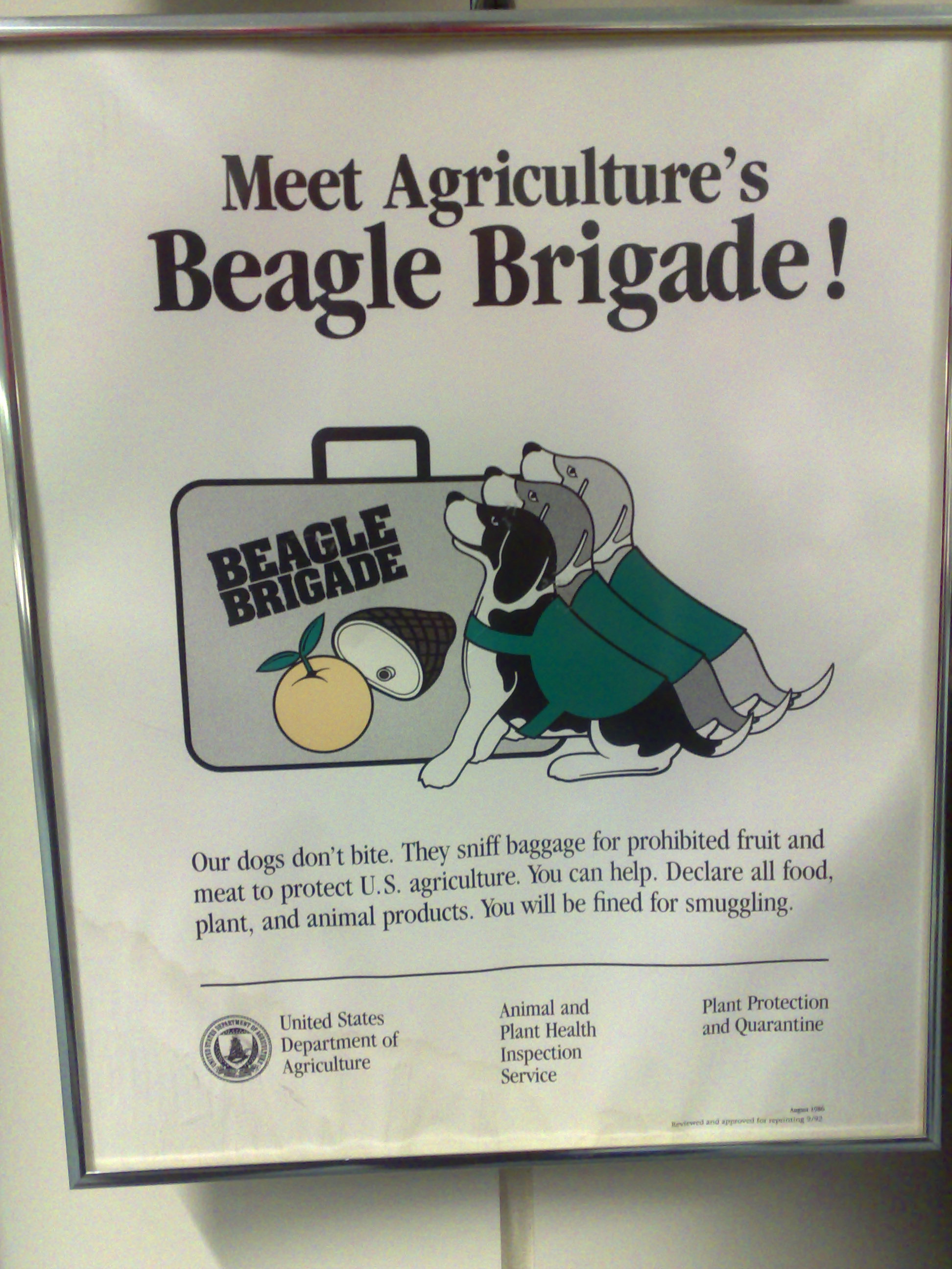 The Agriculture Beagle Brigade... sign at Orlando international airport in Florida USA.... I saw one of the Beagle's sniffing around too!